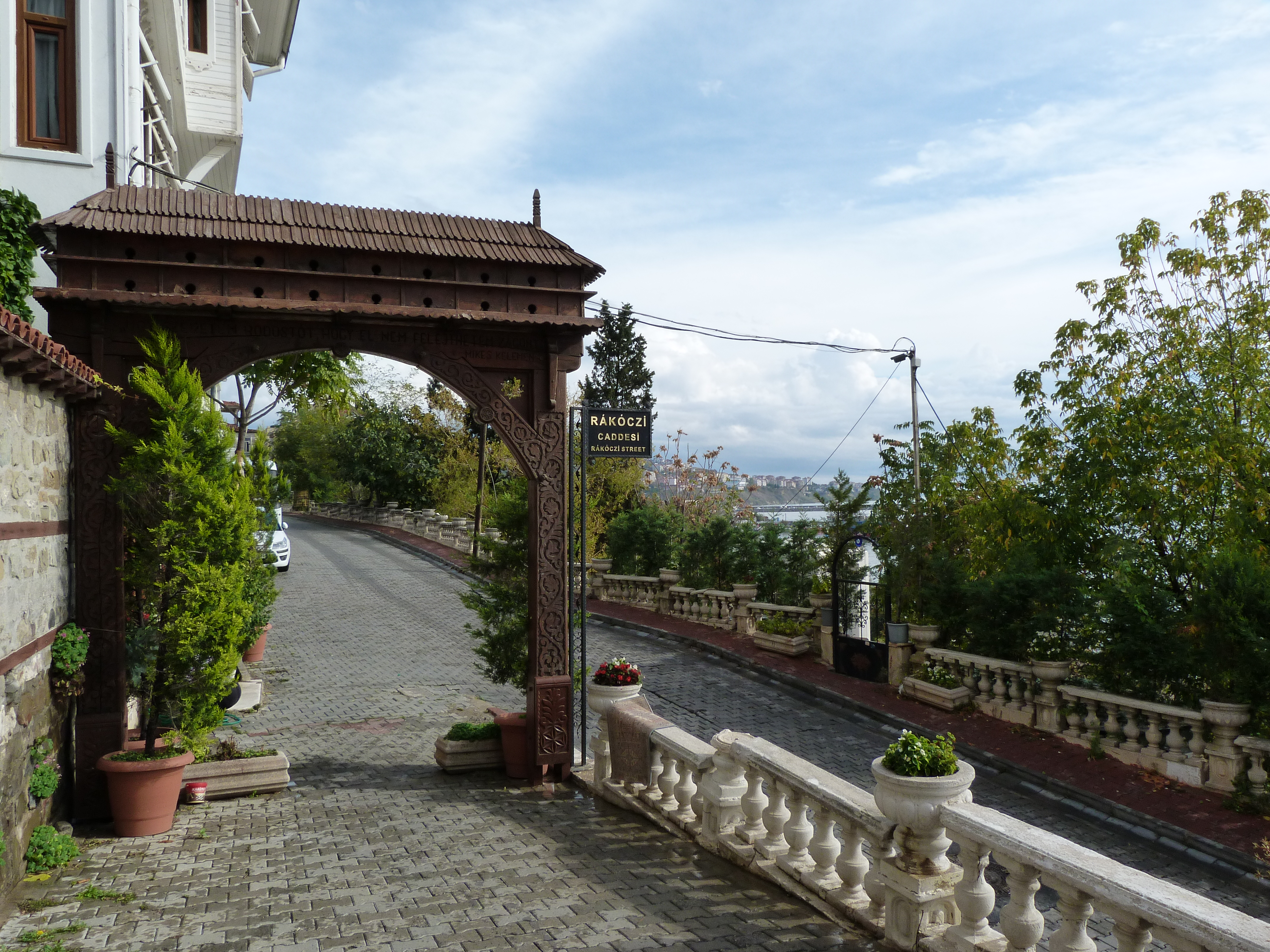 Live on the 25th of october, 2014. Rákóczi Museum, Tekirdağ, Turkey. ©© Derzsi Elekes Andor, Budapest, 2014, Published in the Metapolisz DVD line. You are authorised to use this vid under Creative Commons – even for commercial, for profit purposes. The vid must be attributed to Derzsi Elekes Andor. All of the photos and vids in the Metapolisz DVD line are under Creative Commons and can be used even for commercial – for profit – purposes. Recommended Citation Derzsi Elekes Andor: Metapolisz DVD line